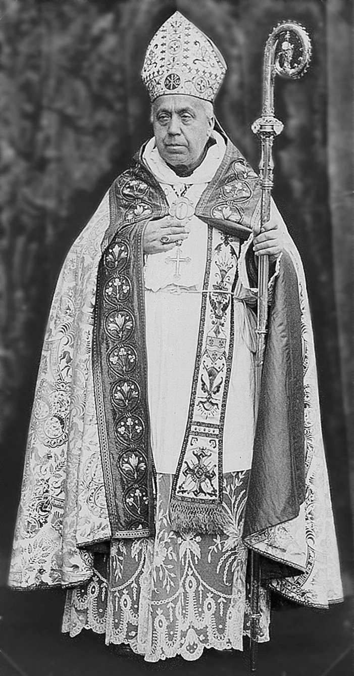 Abbé Joseph Pothier, Saint Wandrille (France)